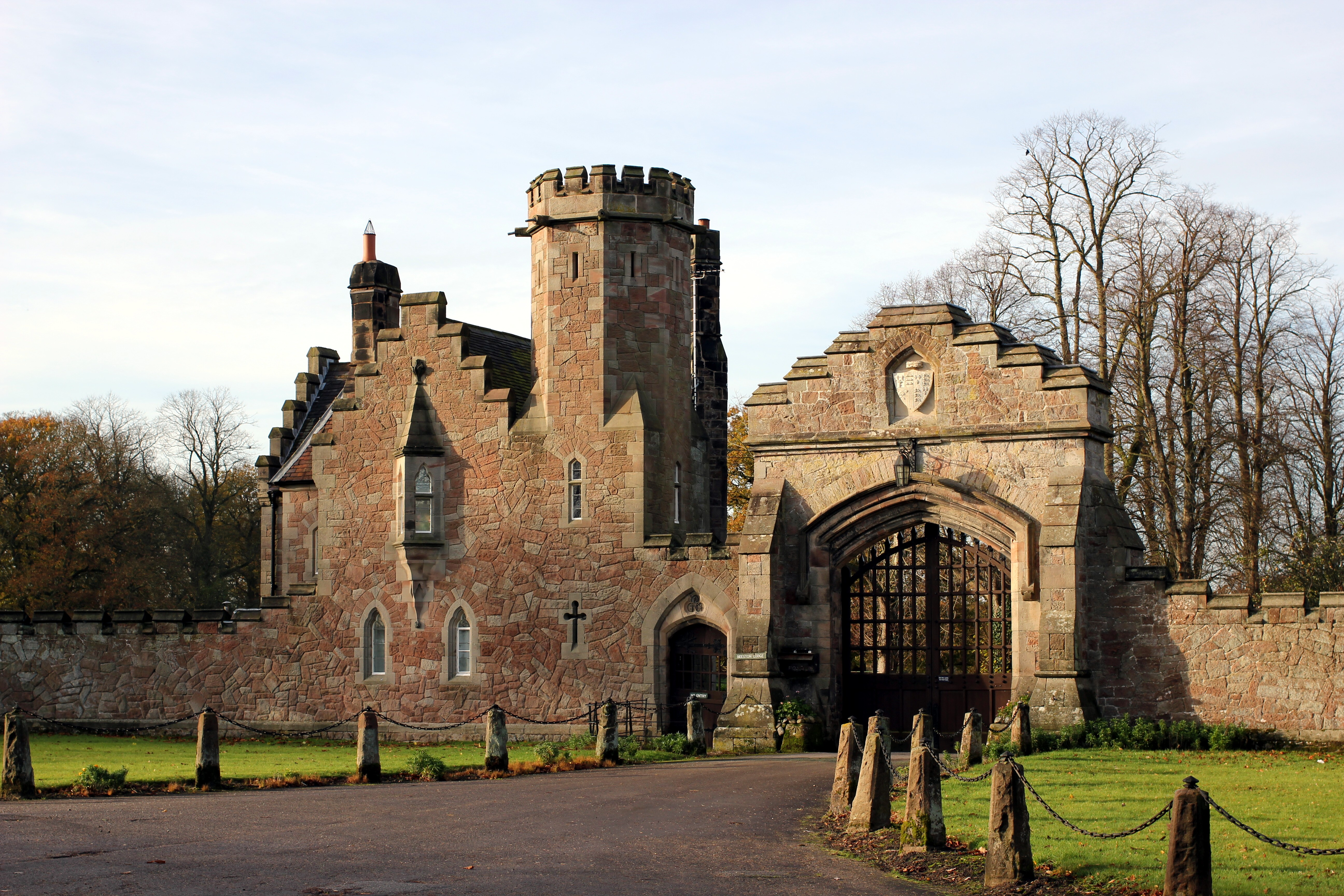 Photograph of Beeston Lodge, Cholmondeley, Cheshire